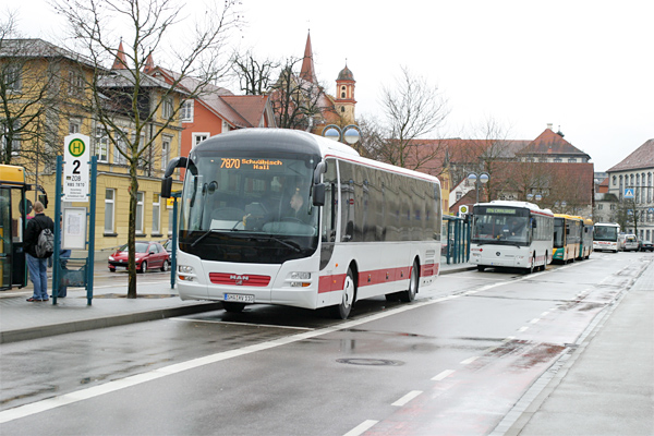 MAN Lion's Regio bus in Ellwangen, Germany.